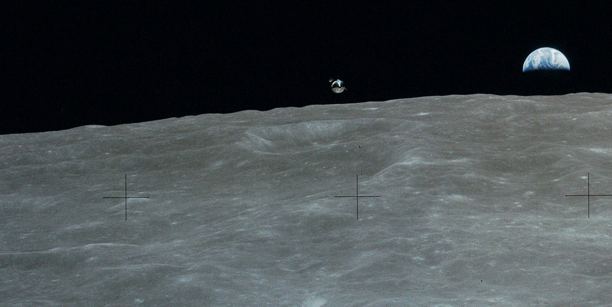 Oblique view of Saha, on the far side of the moon, facing west. Command/Service Module Casper directly above Saha W, and Earth at right above horizon. Taken from the lunar module Orion.